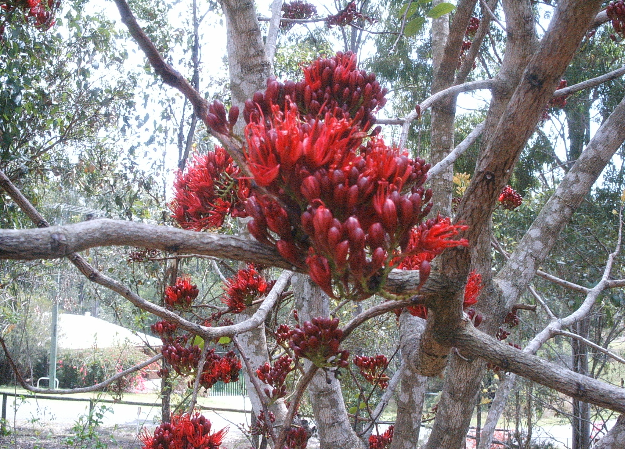 Lin M. Hall My own camera no URL involved Available for fair use This is my own work